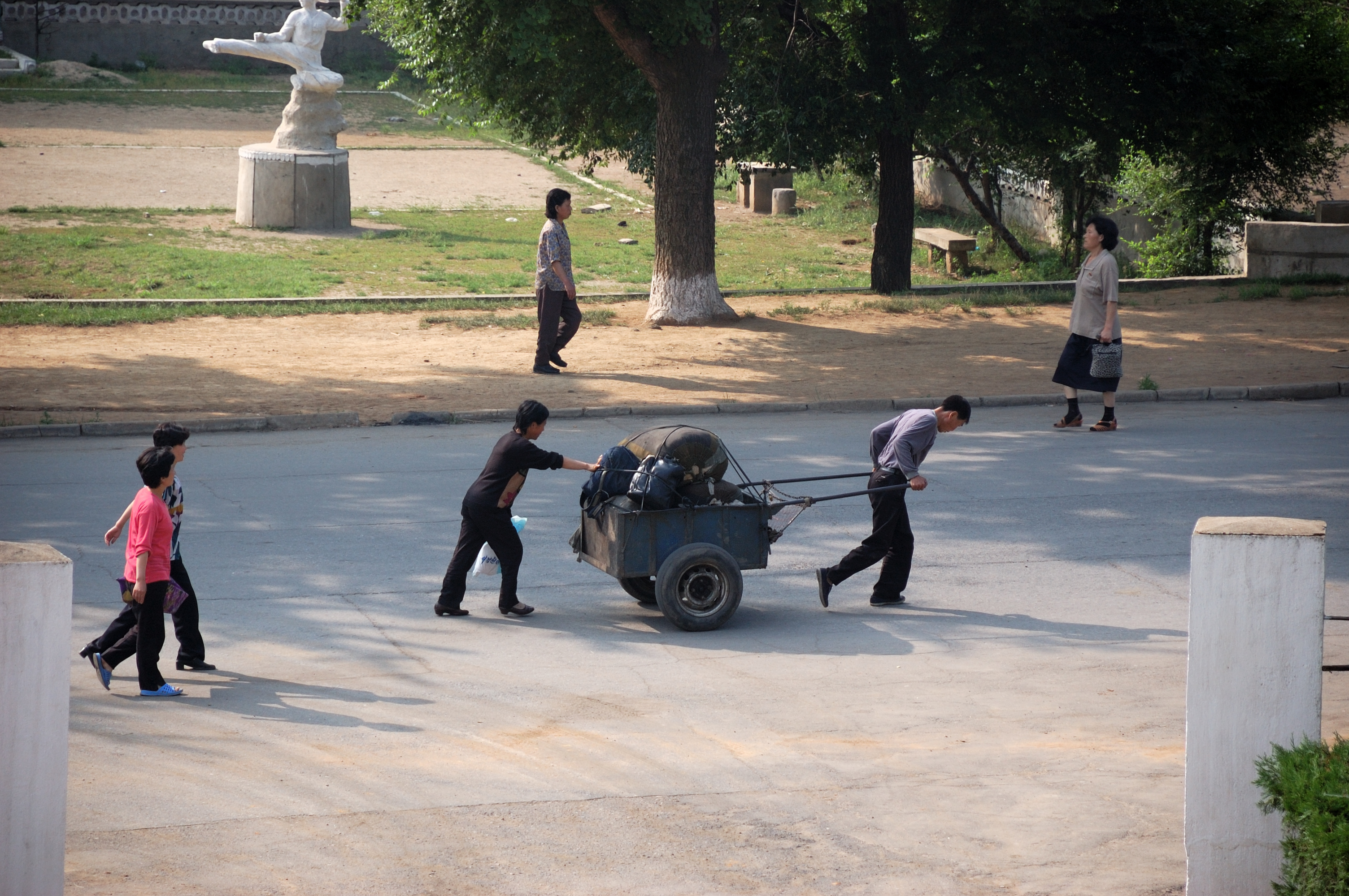 Sariwŏn, North Korea.